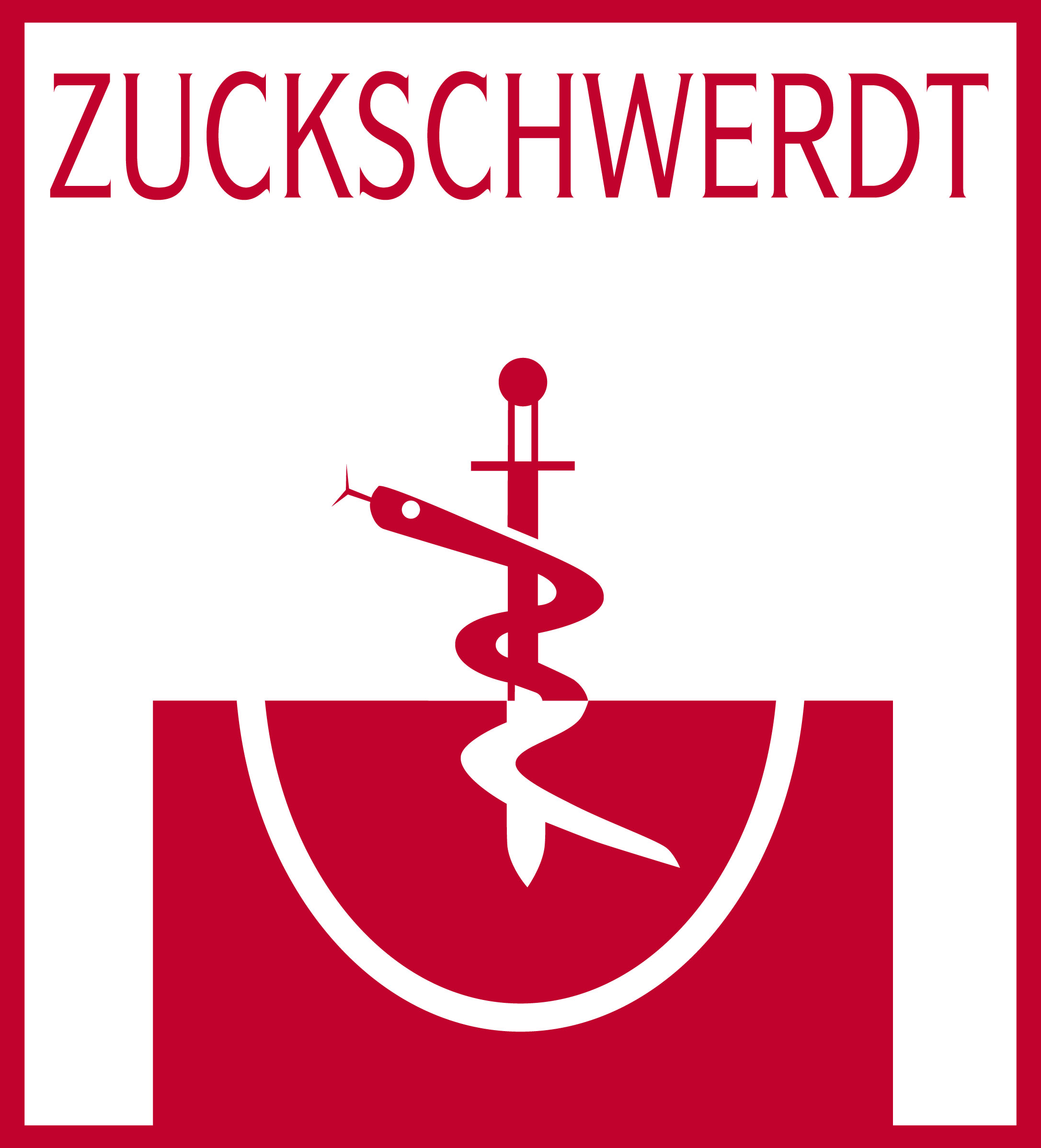 Logo of the german publishing house W. Zuckschwerdt Verlag